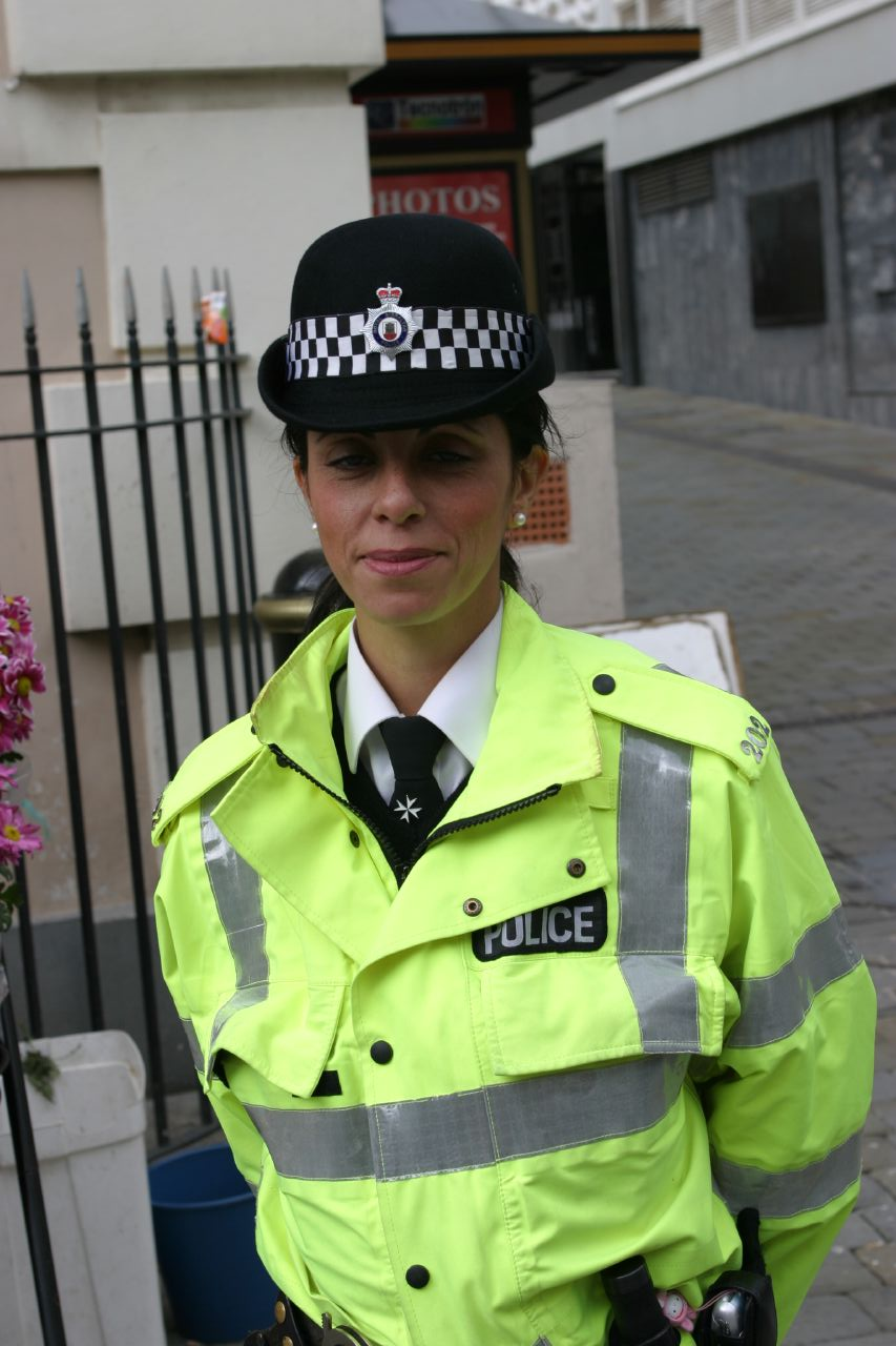 A female officer of the Royal Gibraltar Police in Main Street, Gibraltar.